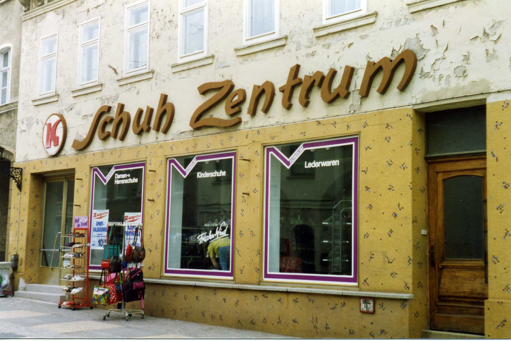 Zeulenroda, Thuringia, Germany, 1993